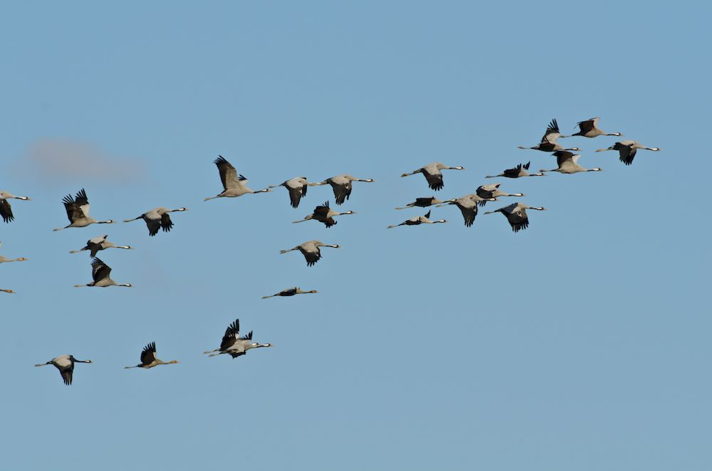 Flock of Common Cranes (Grus grus) flying over Castilla, Spain